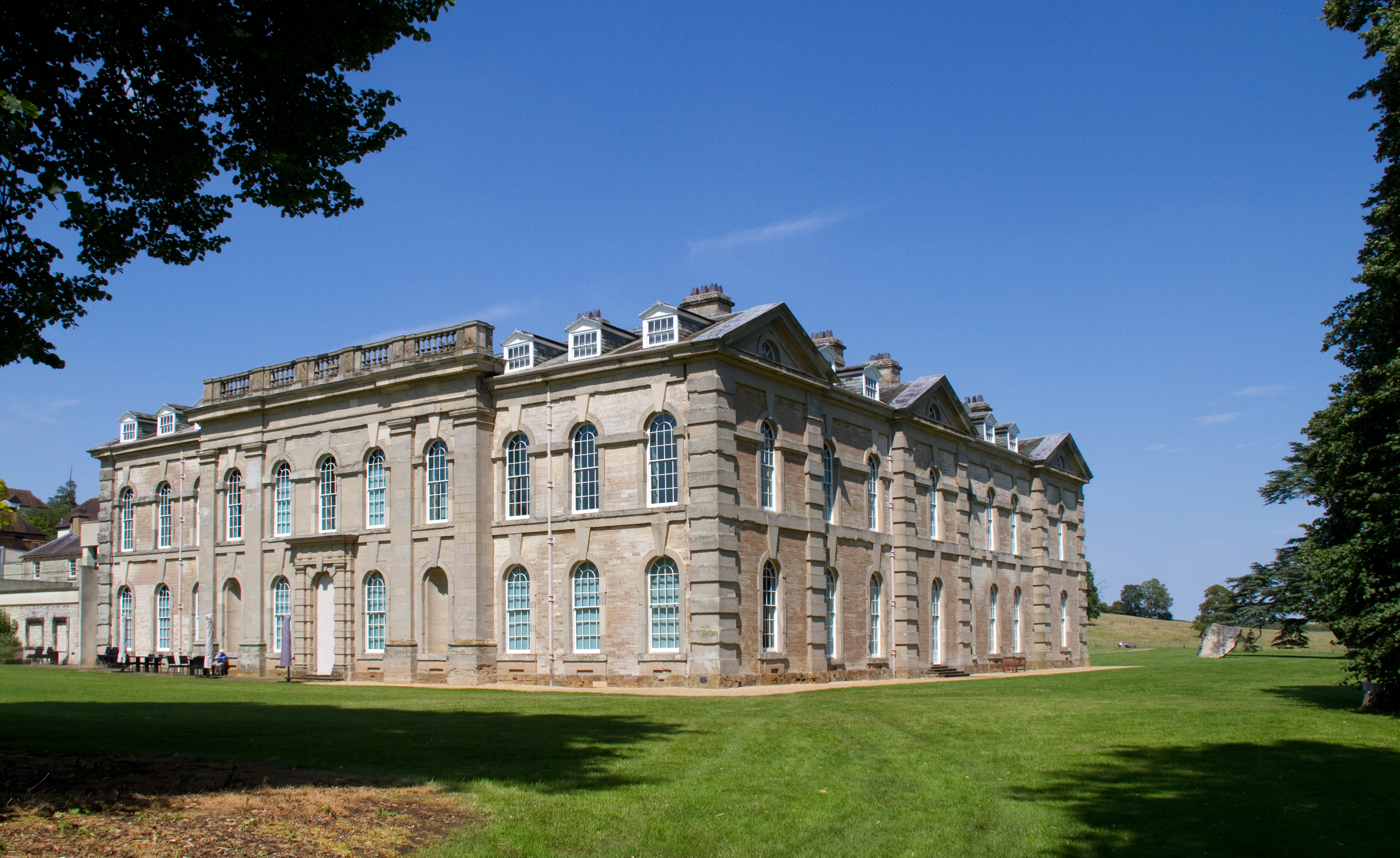 Country house. built around 1714. The west range, attributed to Sir John Vanbrugh, with alterations and additions of 1761-65 by Robert Adam and alterations of 1855 by John Gibson